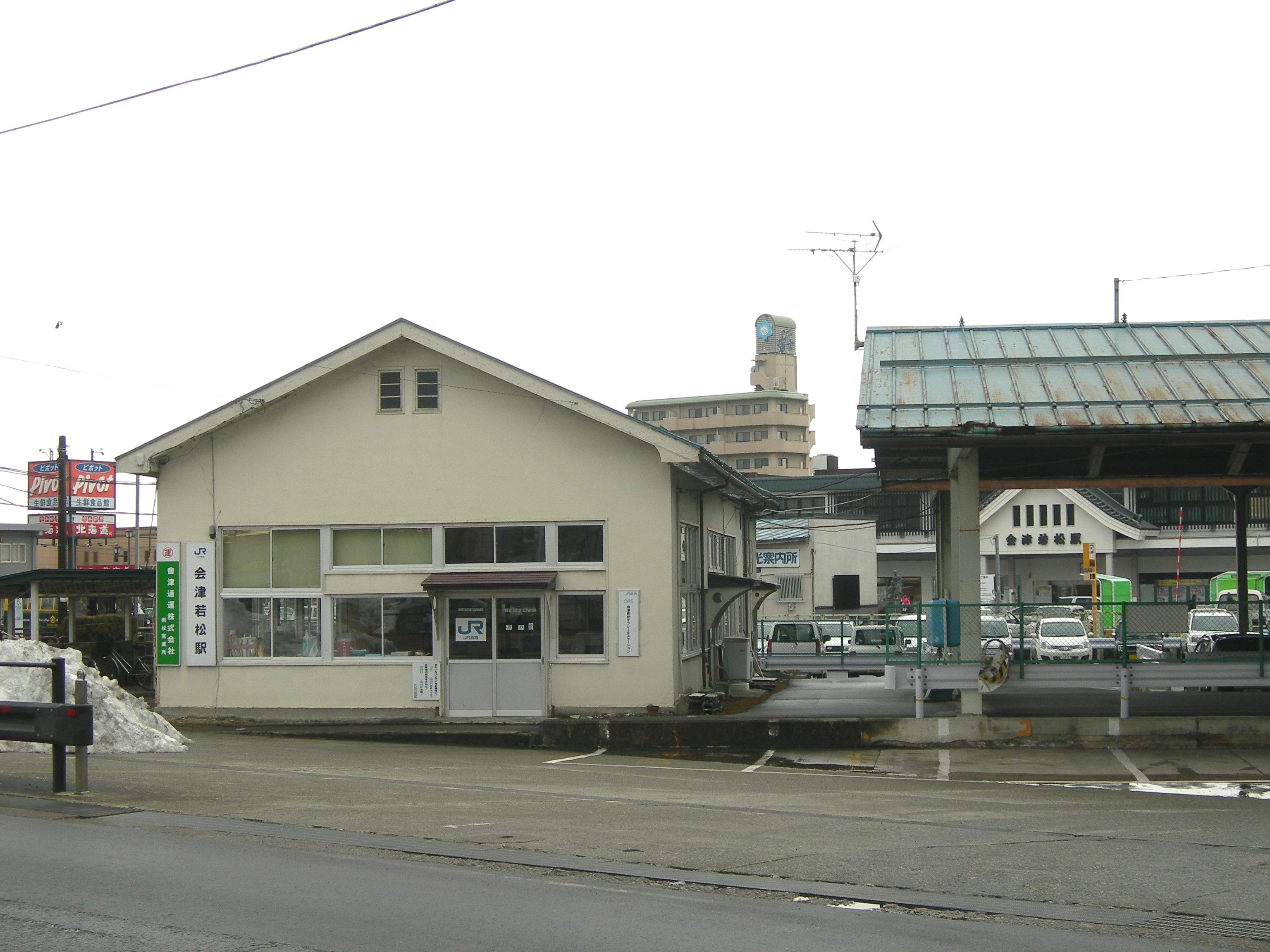 JR Freight Aizu-Wakamatsu Station